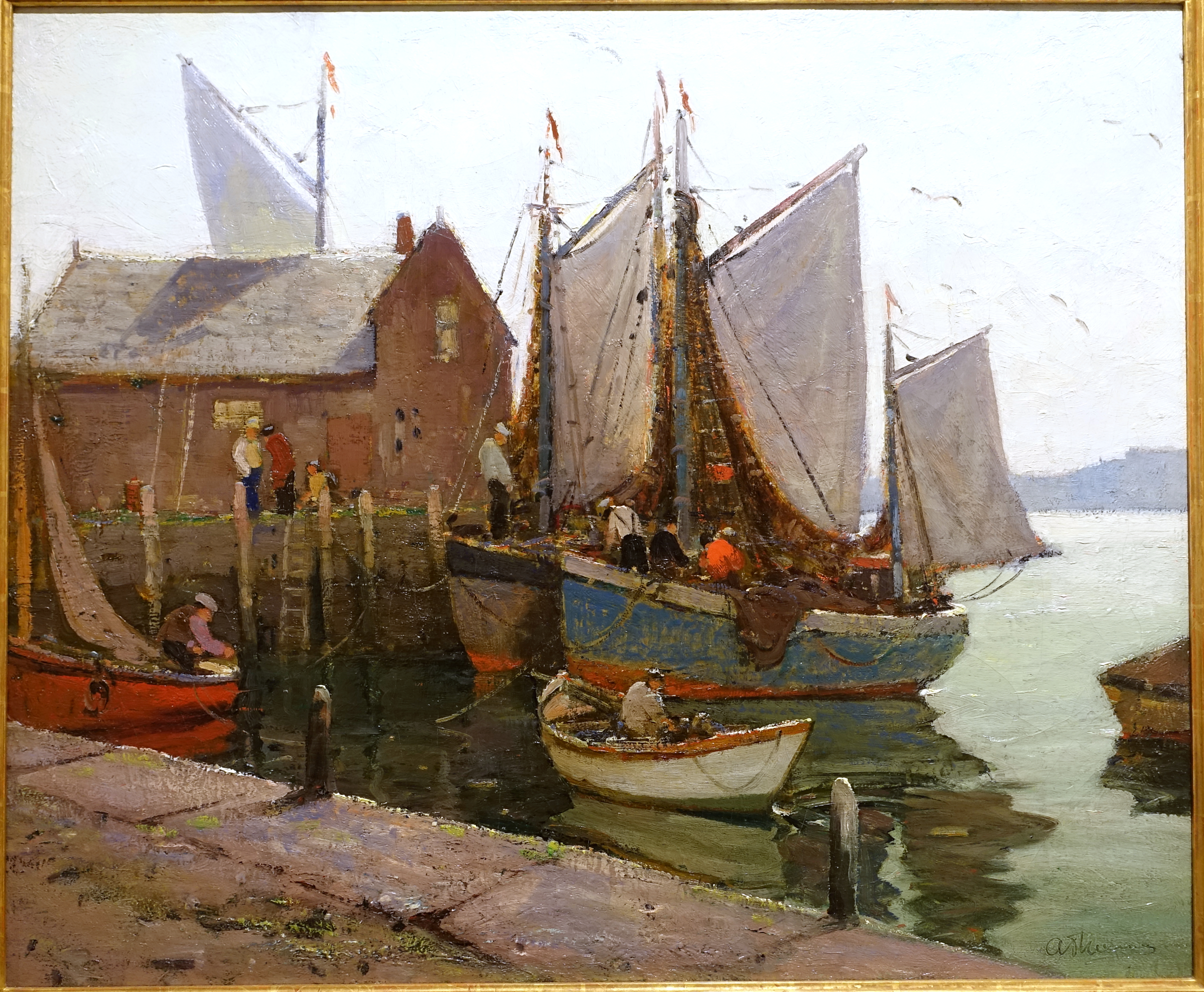 Exhibit in the Cape Ann Museum - Gloucester, Massachusetts, USA.